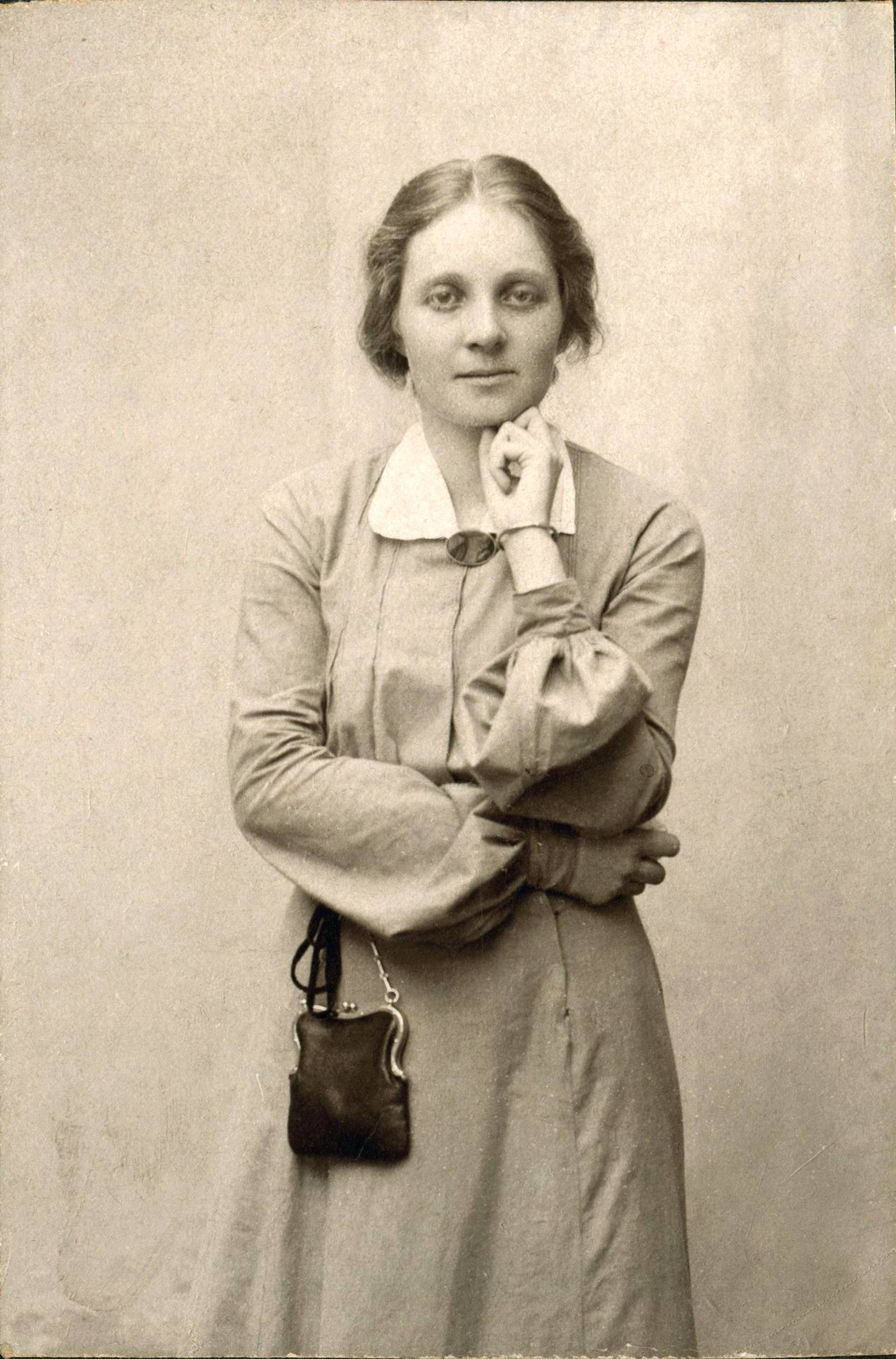 Photograph of the Finnish painter Sigrid Schauman (1877–1979).